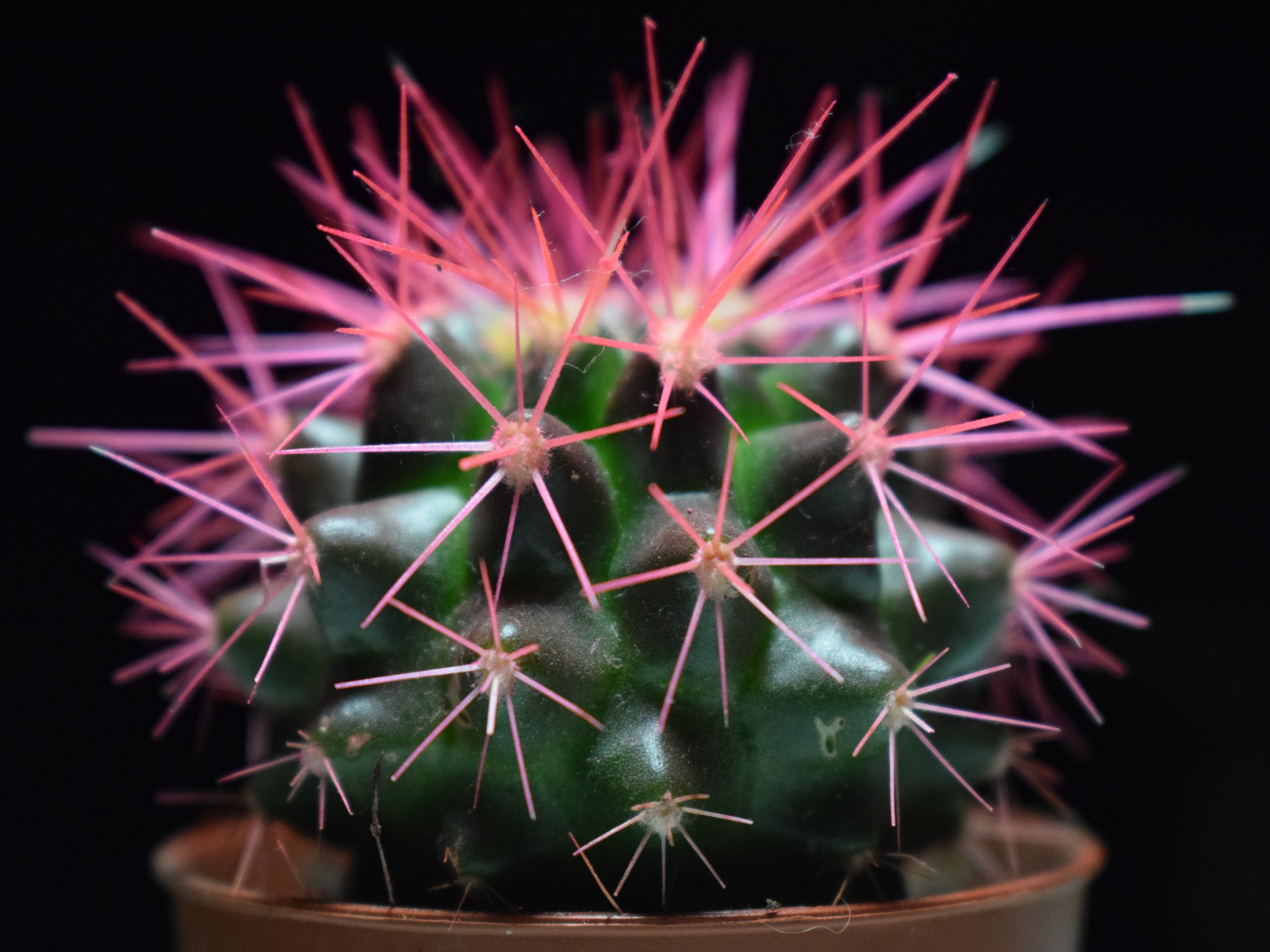 Echinocactus grusonii with pink spikes